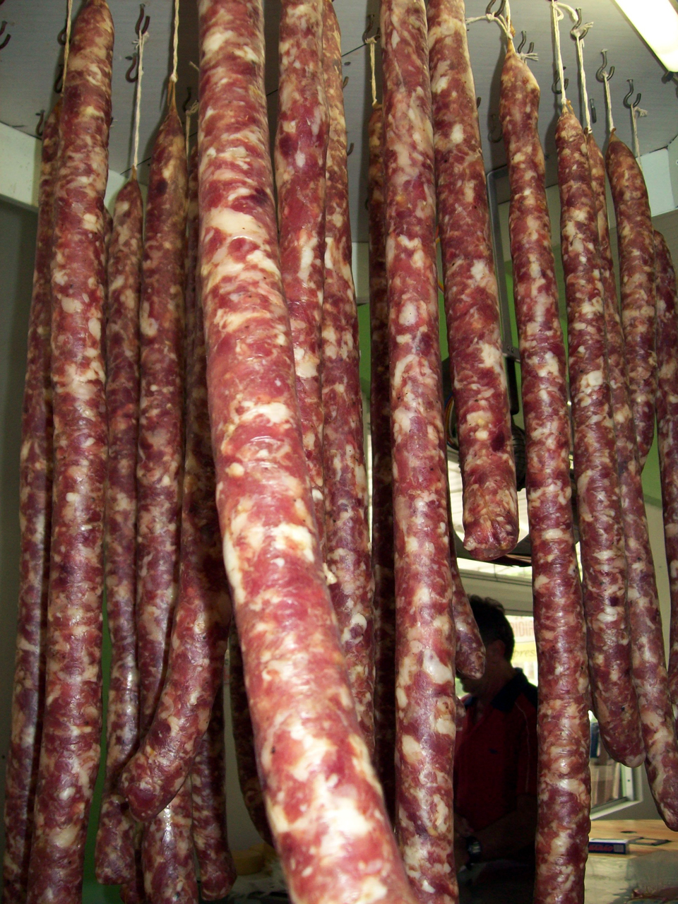 Brazilian Linguiça or pork sausage on display in a butcher shop. Photo taken in Ibiraçu, Espirito Santo, Southeastern Brazil, with a Kodak EasyShare C813 Zoom digital camera.